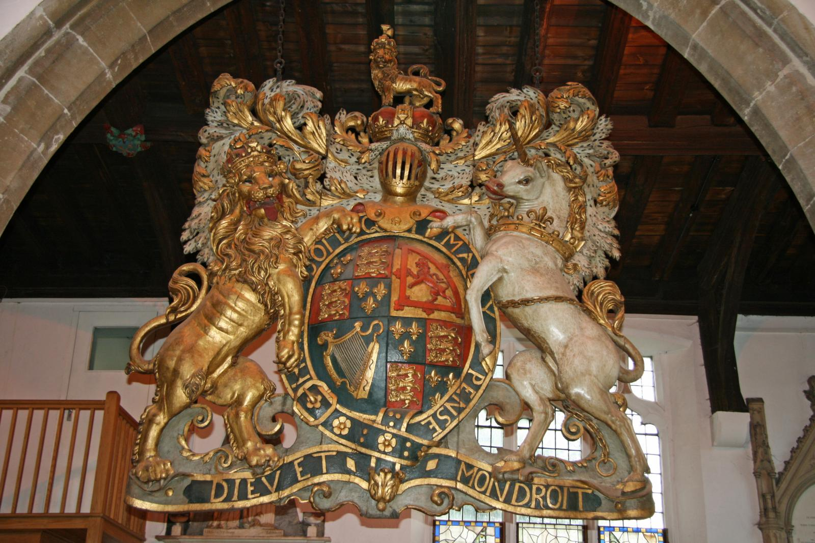 GWUK-121 Uploaded for the Guesswhere UK group.